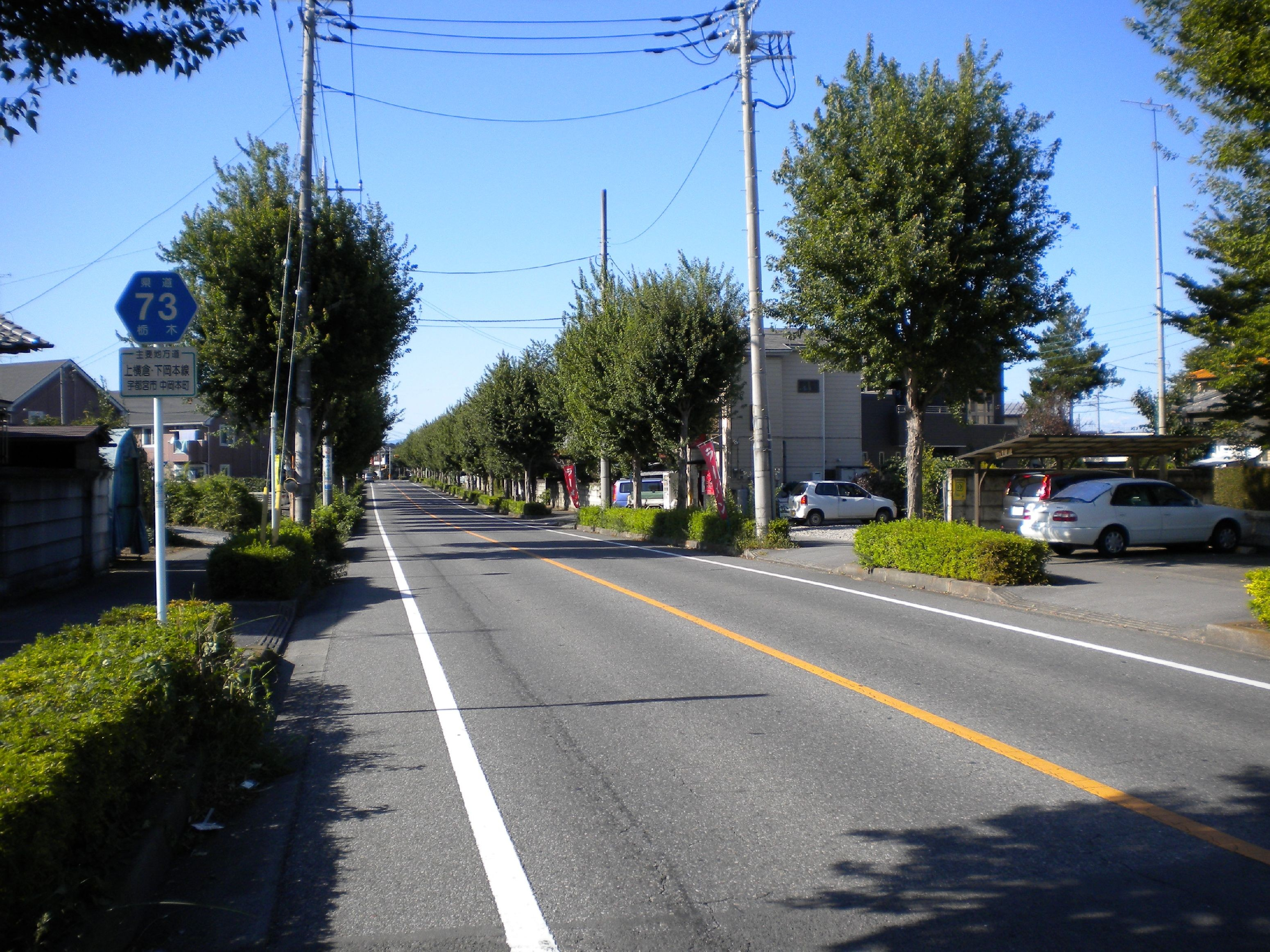 Tochigi prefectural road No.73 on Utsunomiya city